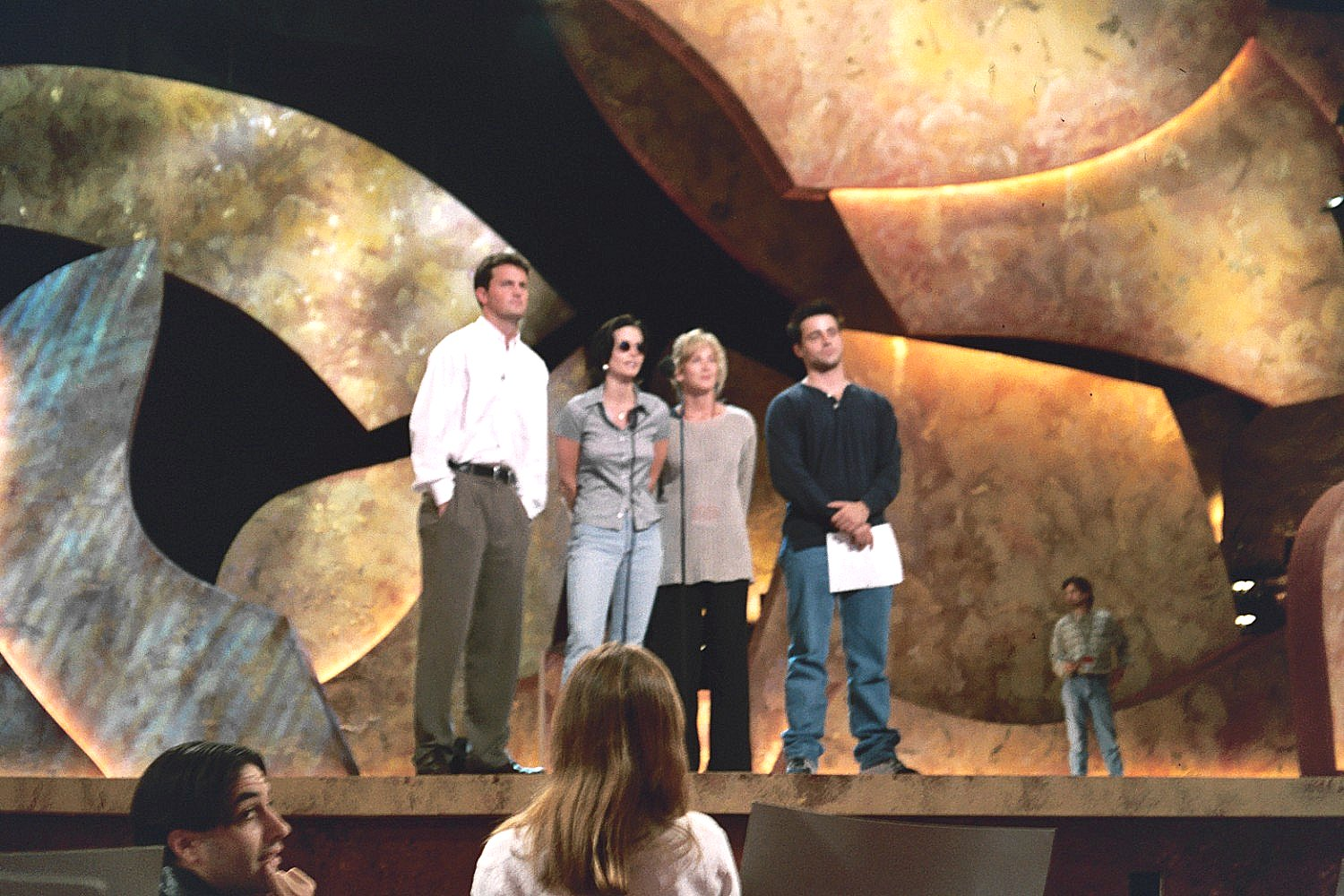 Three members of the cast of Friends and a stand in, at the rehearsal for the 1995 Emmy Awards - September 9, 1995 - Permission granted to copy, publish, broadcast or post but please credit "photo by Alan Light" if you can.